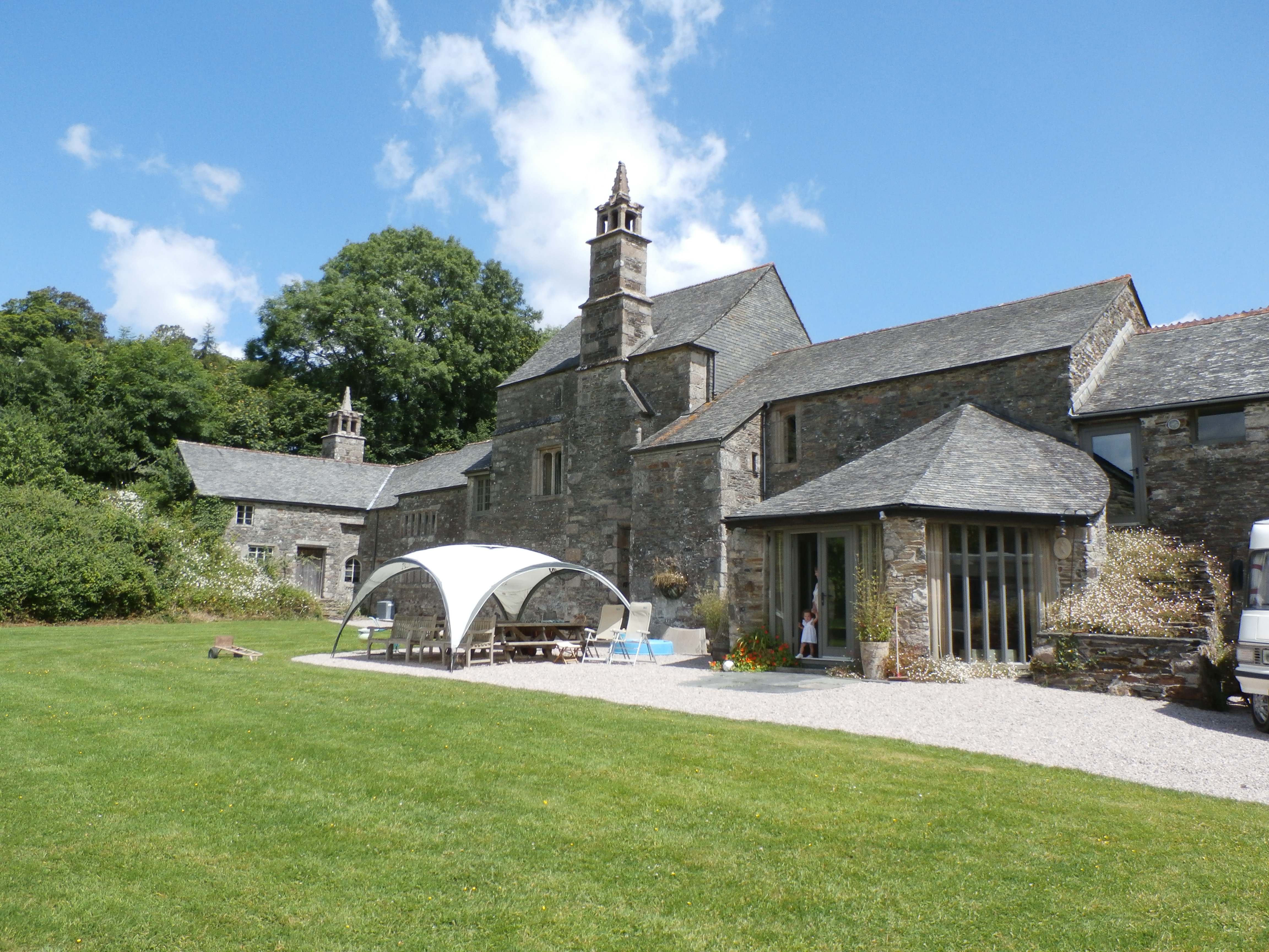 Old Newnham House, Plympton St Mary, Devon, west front